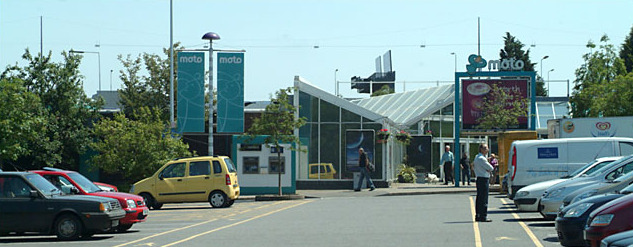 Exeter Motorway Service Area